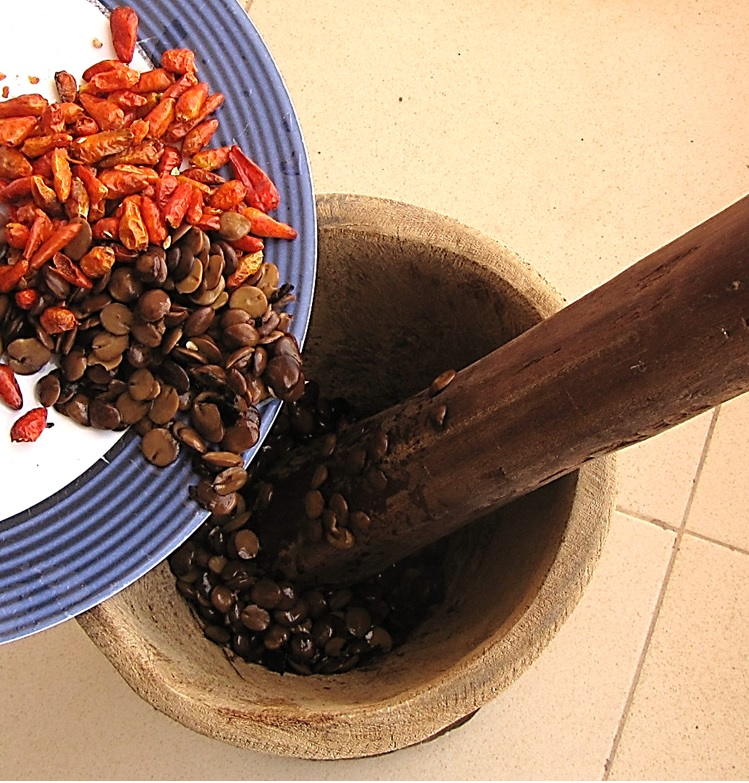 The paste made from nététou (fermented African locust bean/Parkia biglobosa) distinguishes this Senegalese rice pilaf and fish recipe. Since the paste is divided into two, and half is not cooked, a good rinsing of the fermented nététou beans is recommended before starting the paste,(not always done - varies with households) returning the dull almost blackened beans to a smooth brown color, shown here loading the mortar to be pounded together with dry, red capsicum.